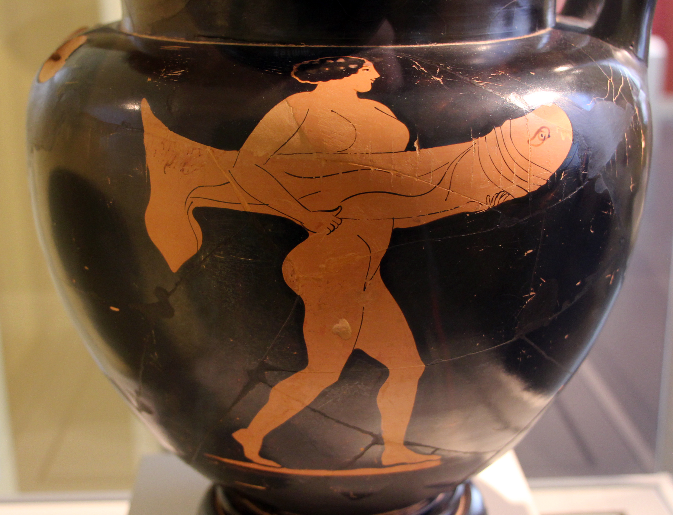 Ancient Greek pottery in the Antikensammlung Berlin